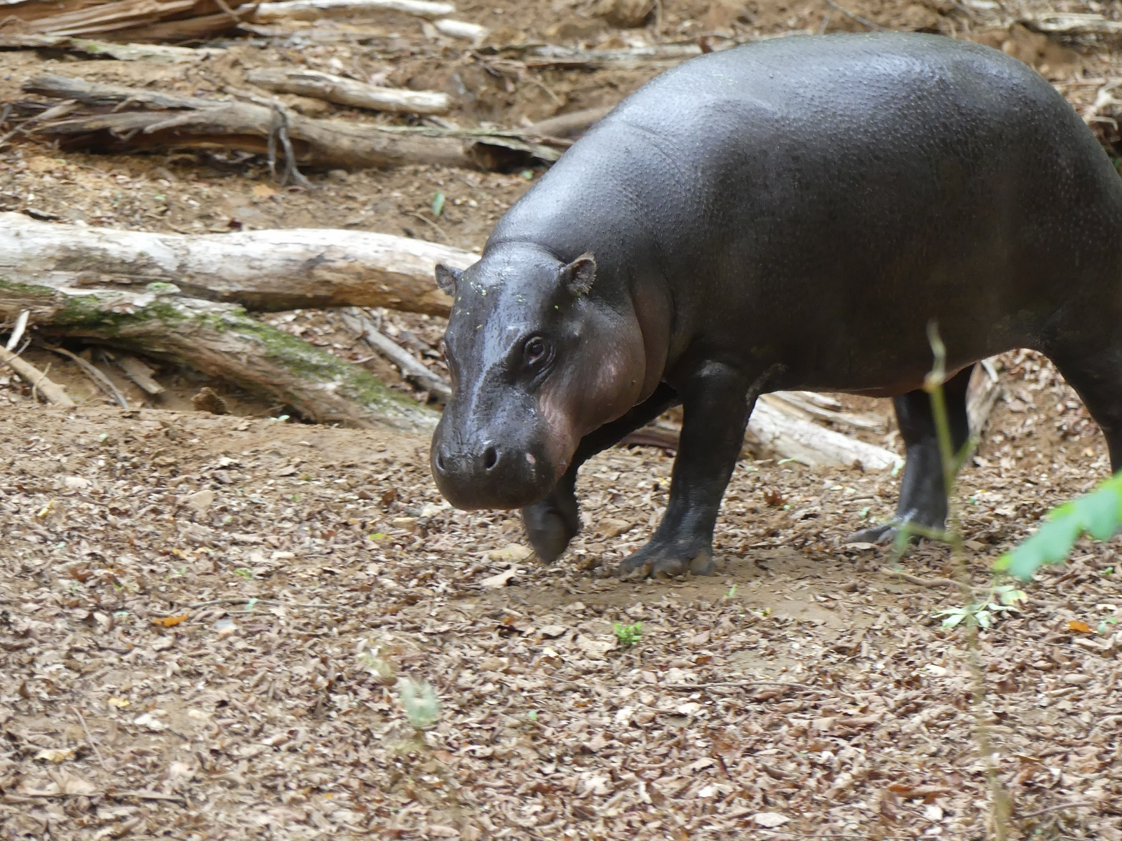 Pygmy hippo, Réserve zoologique de Calviac